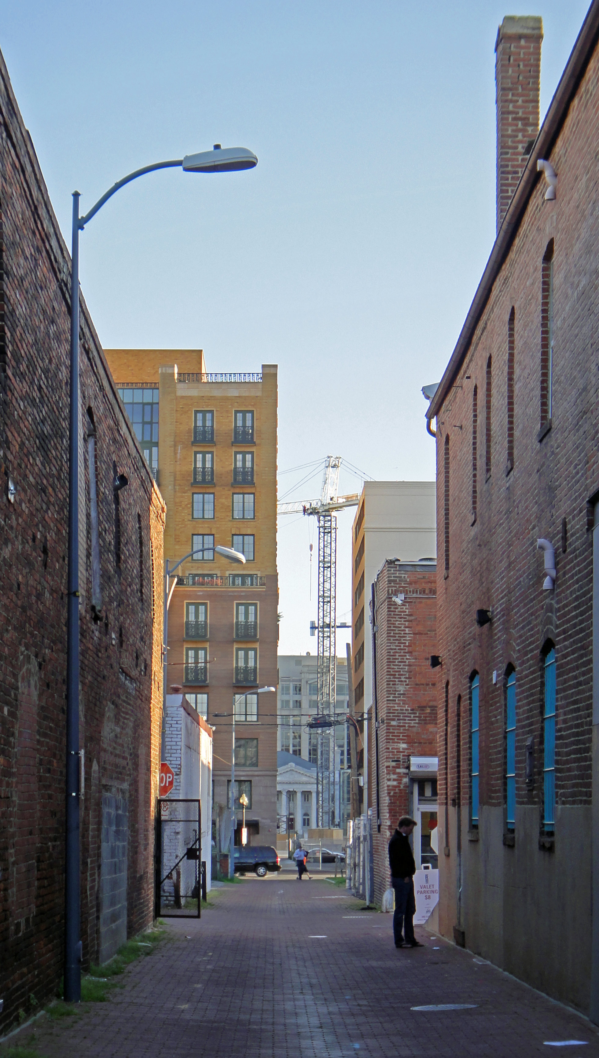 The long blocks between 9th and 10th, L and O streets NW just west of the convention center in Shaw, have a series of alleys which retain the houses in front, stables/workshops in back arrangement that prevailed in many 19th century Washington neighborhoods. This particular alley has lately sprouted art studios and a few daring restaurants, namely Rogue 24 and SunDeVich. Although the convention center was built with retail frontage along 9th St, these alleys' humane proportions and weathered brick certainly look much more enticing.